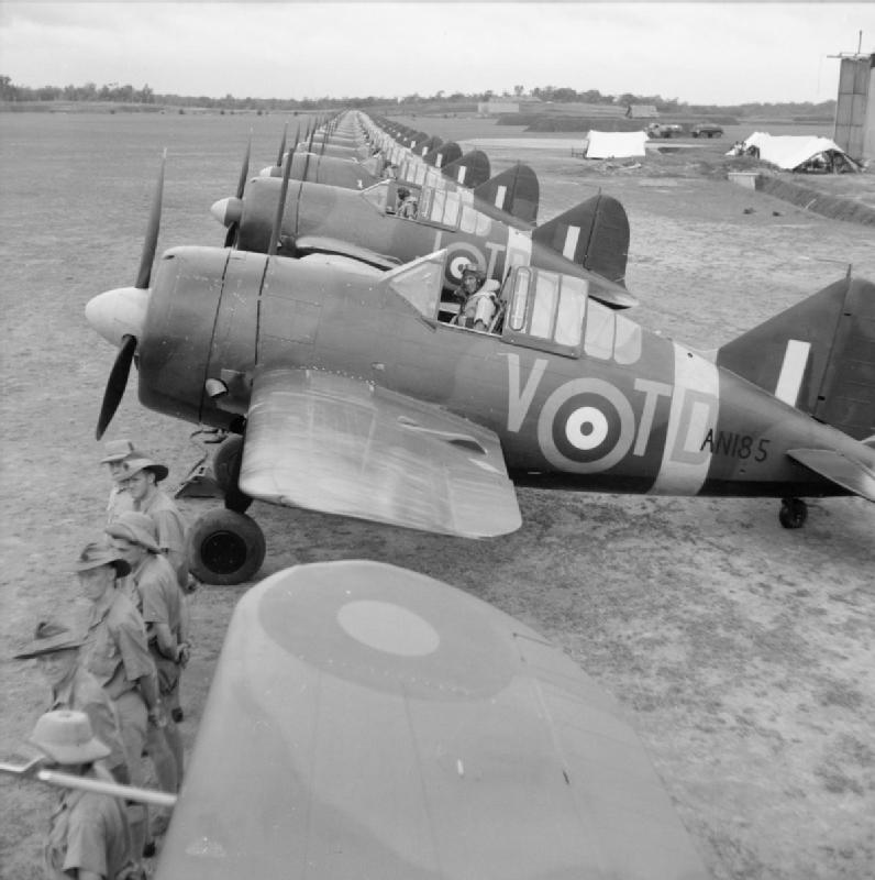 Air Ministry Second World War Official Collection. Singapore, Malaya. c. 1941-11. A line-up of RAAF Brewster Buffalo aircraft of 453 Squadron on Sembawang airfield.